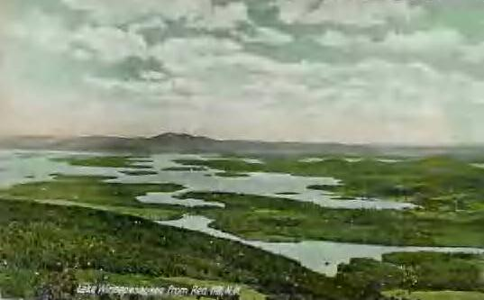 Lake Winnipesaukee in 1905 from Red Hill, Moultonborough, NH; from an old postcard.